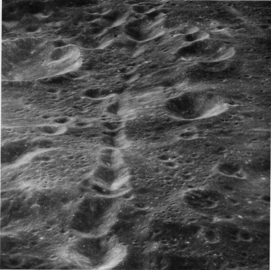 Oblique view of crater chain known as Catena Gregory, near Gregory crater, on the far side of the moon. Facing northwest. This is Figure 134 of Apollo Over the Moon (NASA SP-362, 1978), which has the following caption, which was apparently written prior to formal naming of the feature: This oblique view taken with the Hasselblad camera shows a crater chain on the far side, about 500 km north of Tsiolkovsky. For an idea of the scale, the large crater near the upper left corner is about 26 km wide. The origin of this chain is controversial. To some geologists, the irregular shape of many of the craters suggests that the chain was formed by the impact of a stream of ejecta from a large primary crater. The presence of herringbone ridges would have strengthened this interpretation, but none are visible; perhaps the high Sun angle and the oblique viewing angle of this scene have obscured them. To others the simple geometry of the chain suggests a volcanic origin. However, there is an apparent lack of faulting to control the alinement of the craters and an apparent absence of a blanket of volcanic ejecta. The origin of this chain may not be decipherable until, and unless, additional photography becomes available.-G.W.C. (George W. Colton)